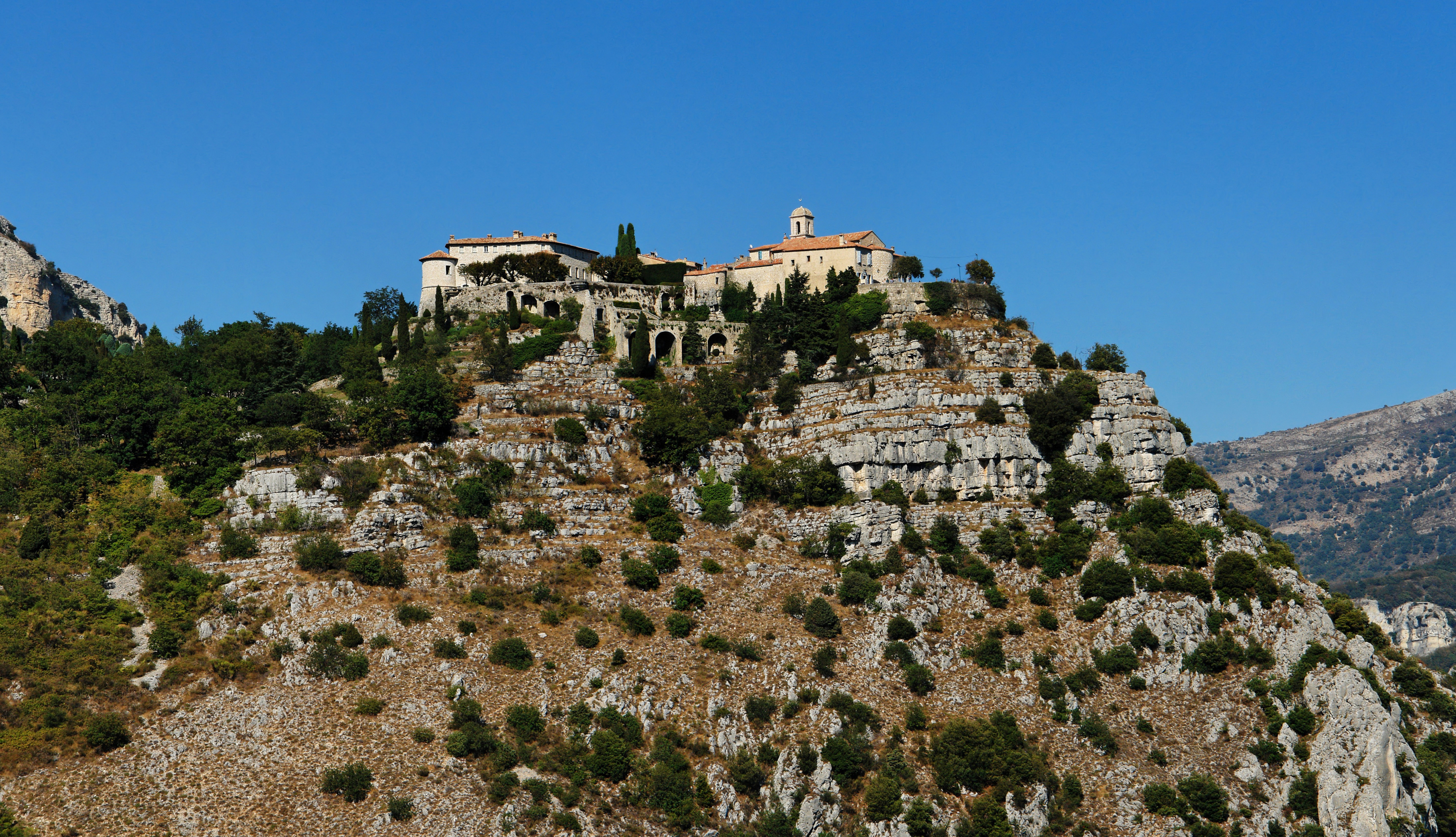 Castle and village of Gourdon [1]. Obtained after stiching 4 pictures